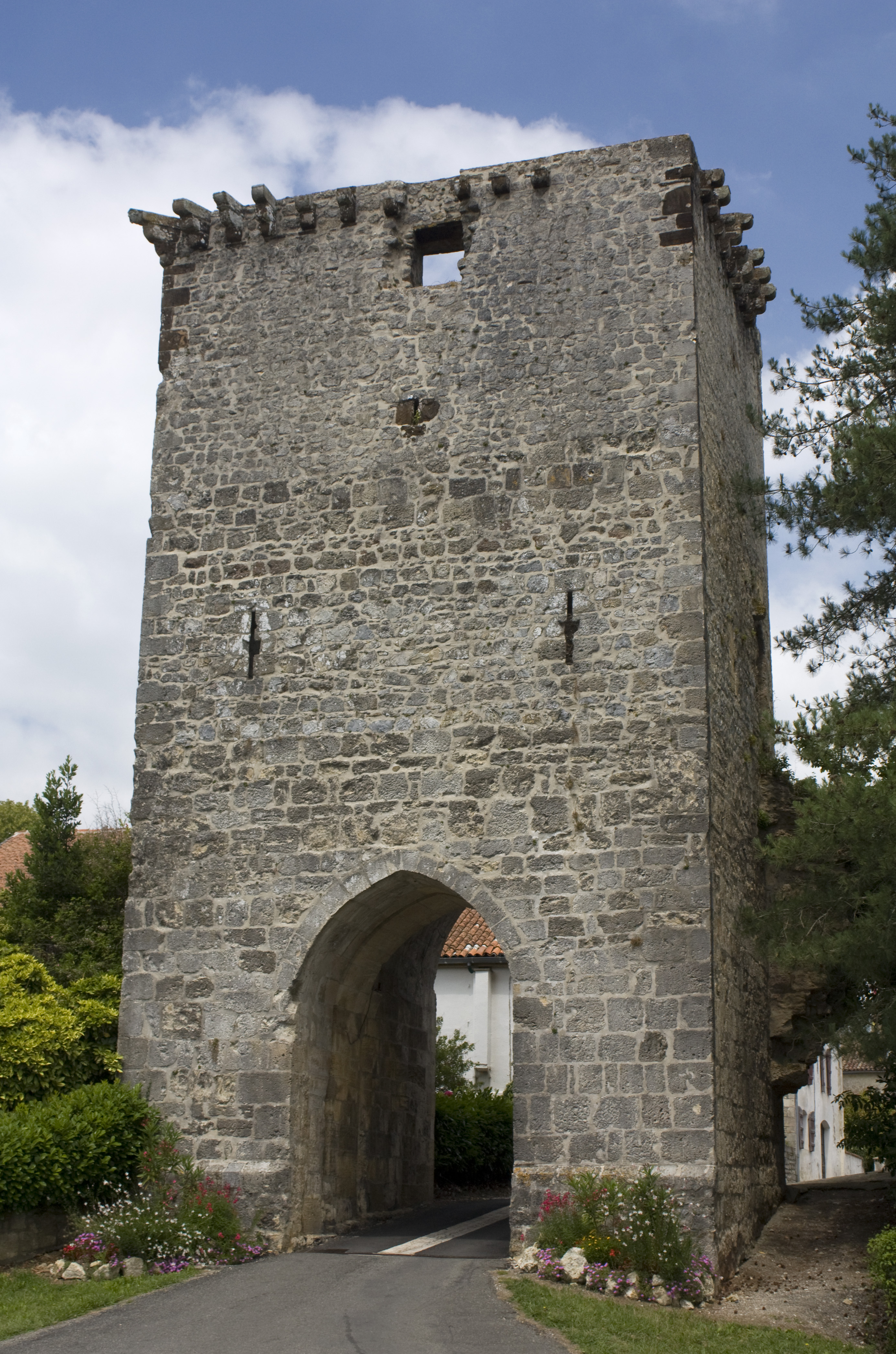 Dorway of the city and rests of walls.